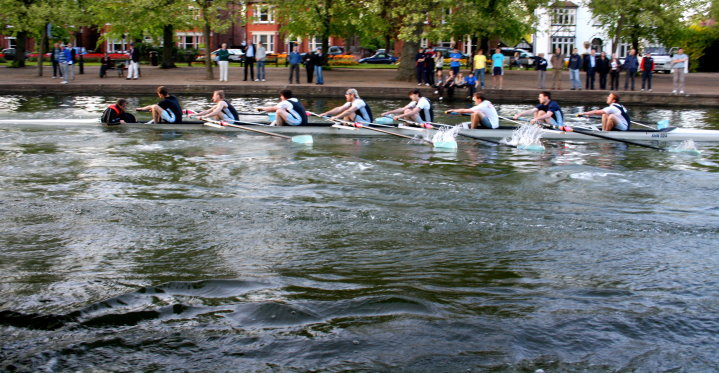 Wadham Men at Bedford Regatta